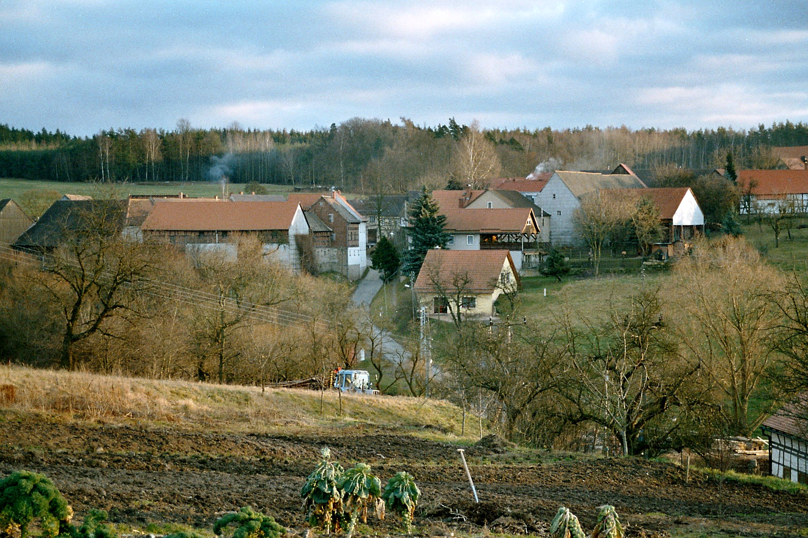 View to the village Tissa